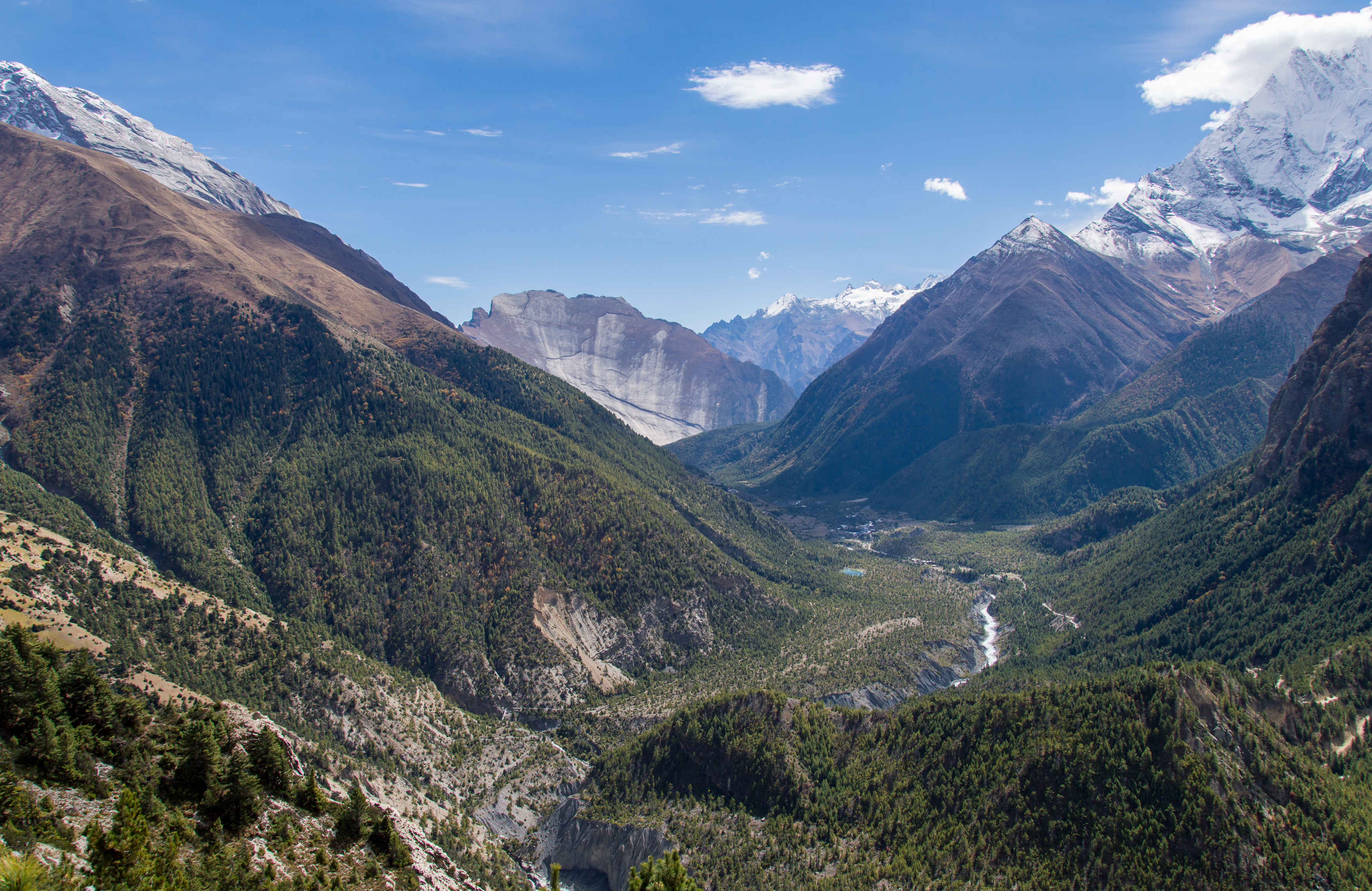 Marsyangdi river valley near Pisang, view from Ghyaru